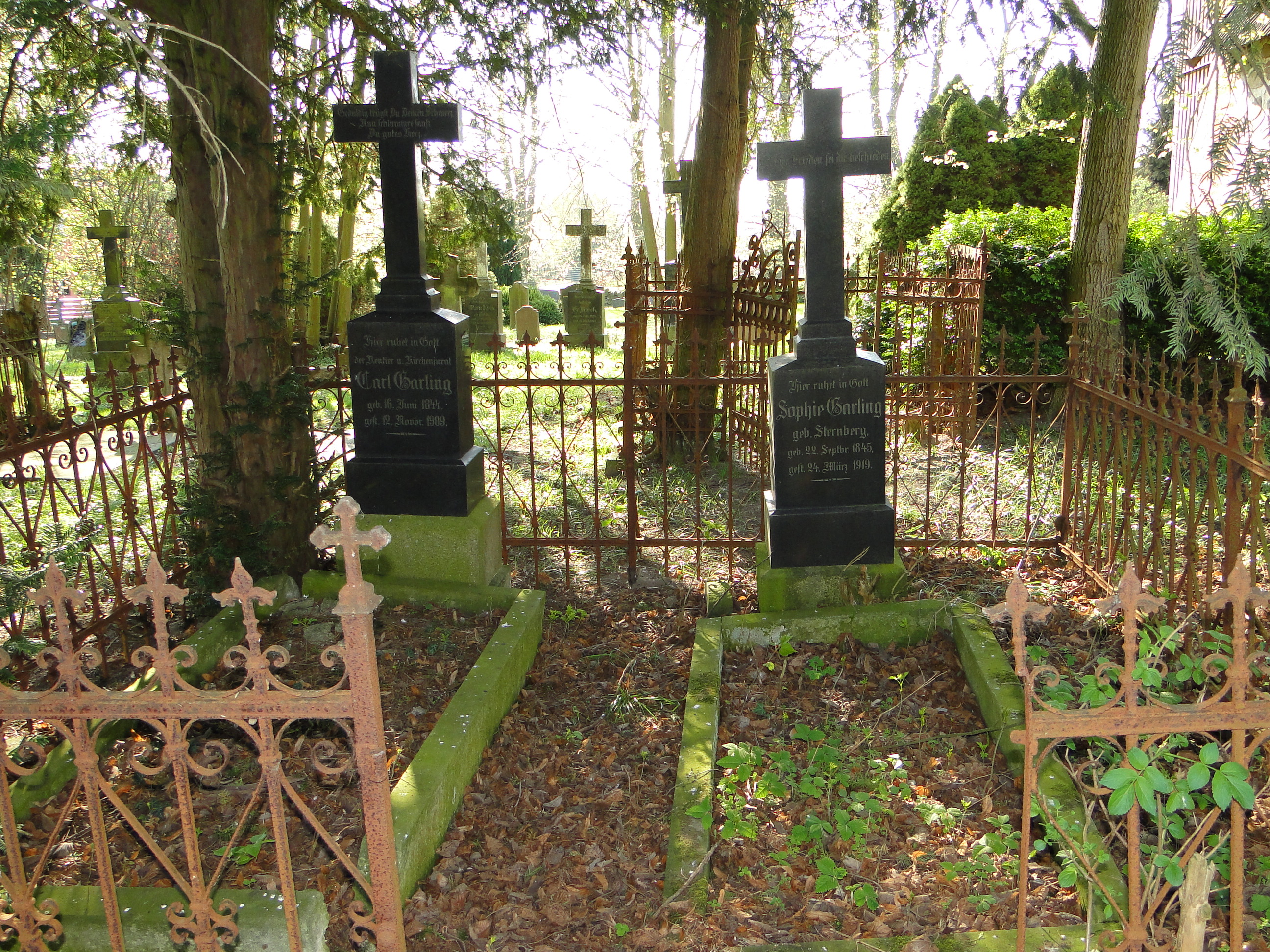 Cemetery at church in Ruest, district Parchim, Mecklenburg-Vorpommern, Germany